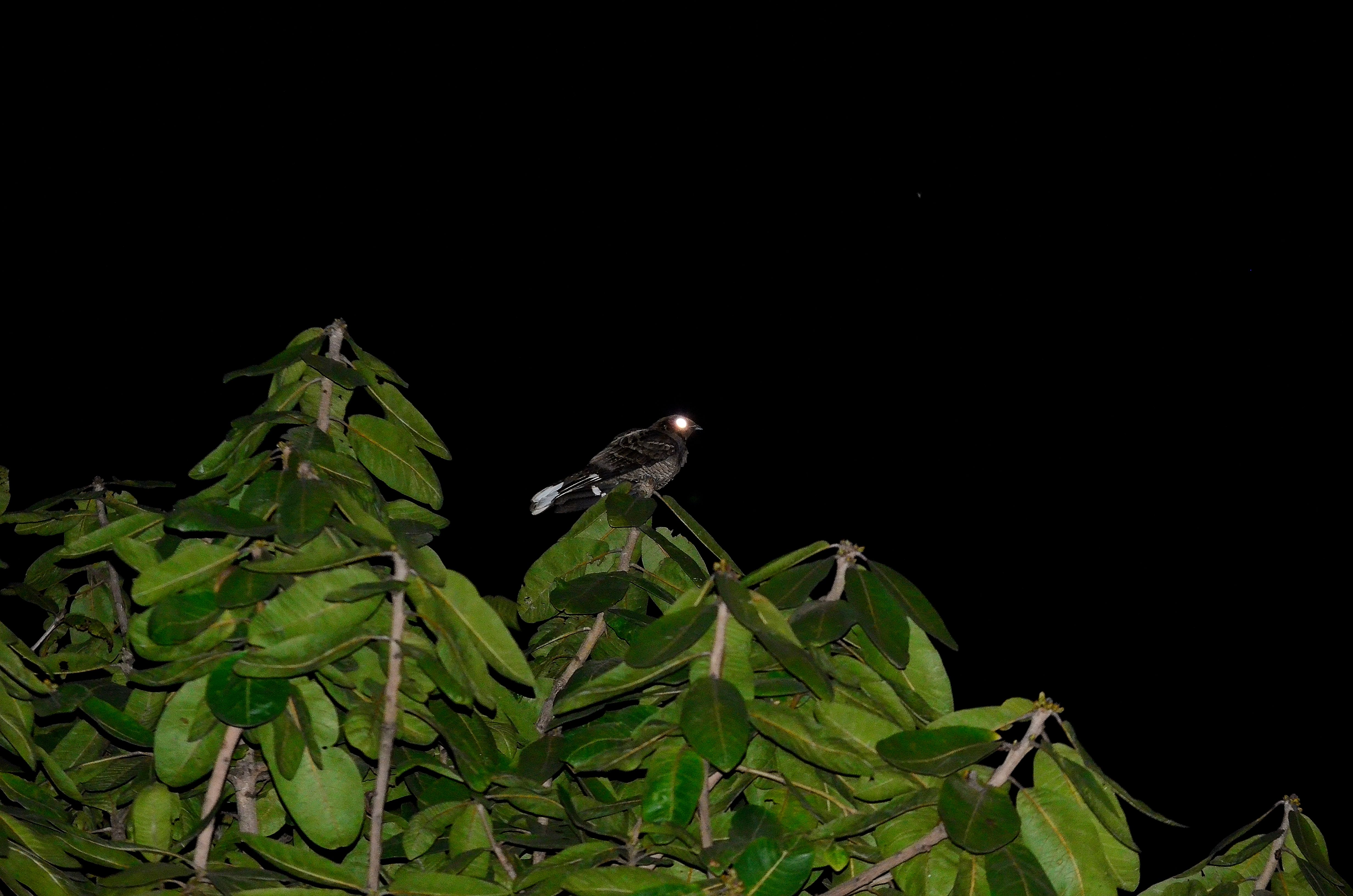 Indian Nightjar(Outskirts of Dalma Wildlife Sanctuary).